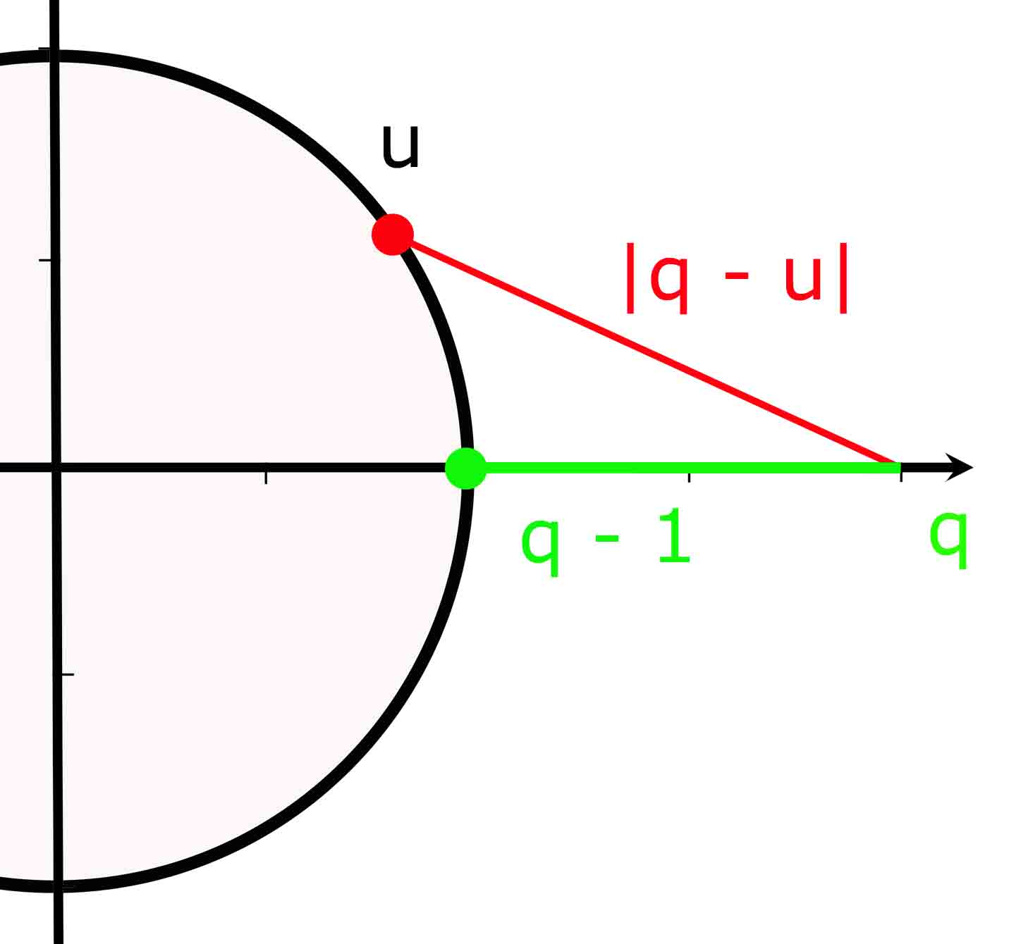 Schema to illustrate Wedderburn theorem (Wikipedia France)